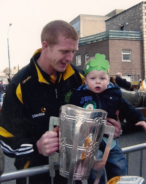 Picture of Kilkenny hurler Henry Shefflin taken on St Patrick's Day 2009.